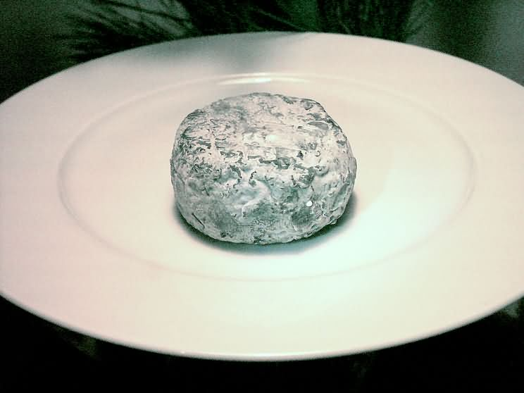 Cabri gatineau, small goatmilk cheese from France. 45% fat in dry matter. Produced in Ste-Anne. Photo taken by Dominik Hundhammer, München, Dec. 20, 2005.